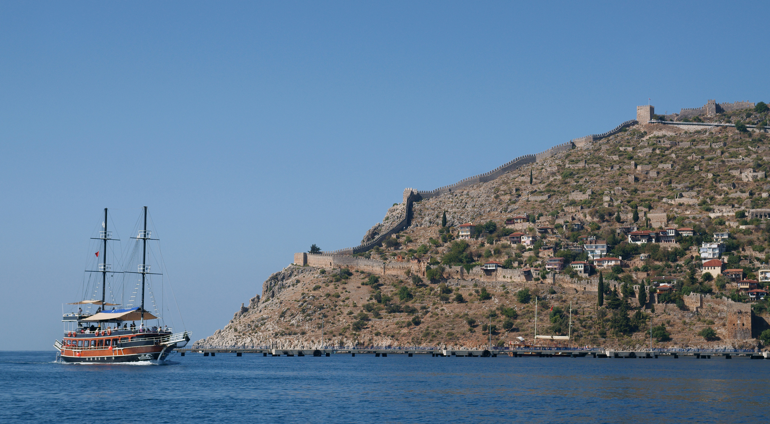 Boat Orkan 4 cruising towards Alanya harbour, Turkey.